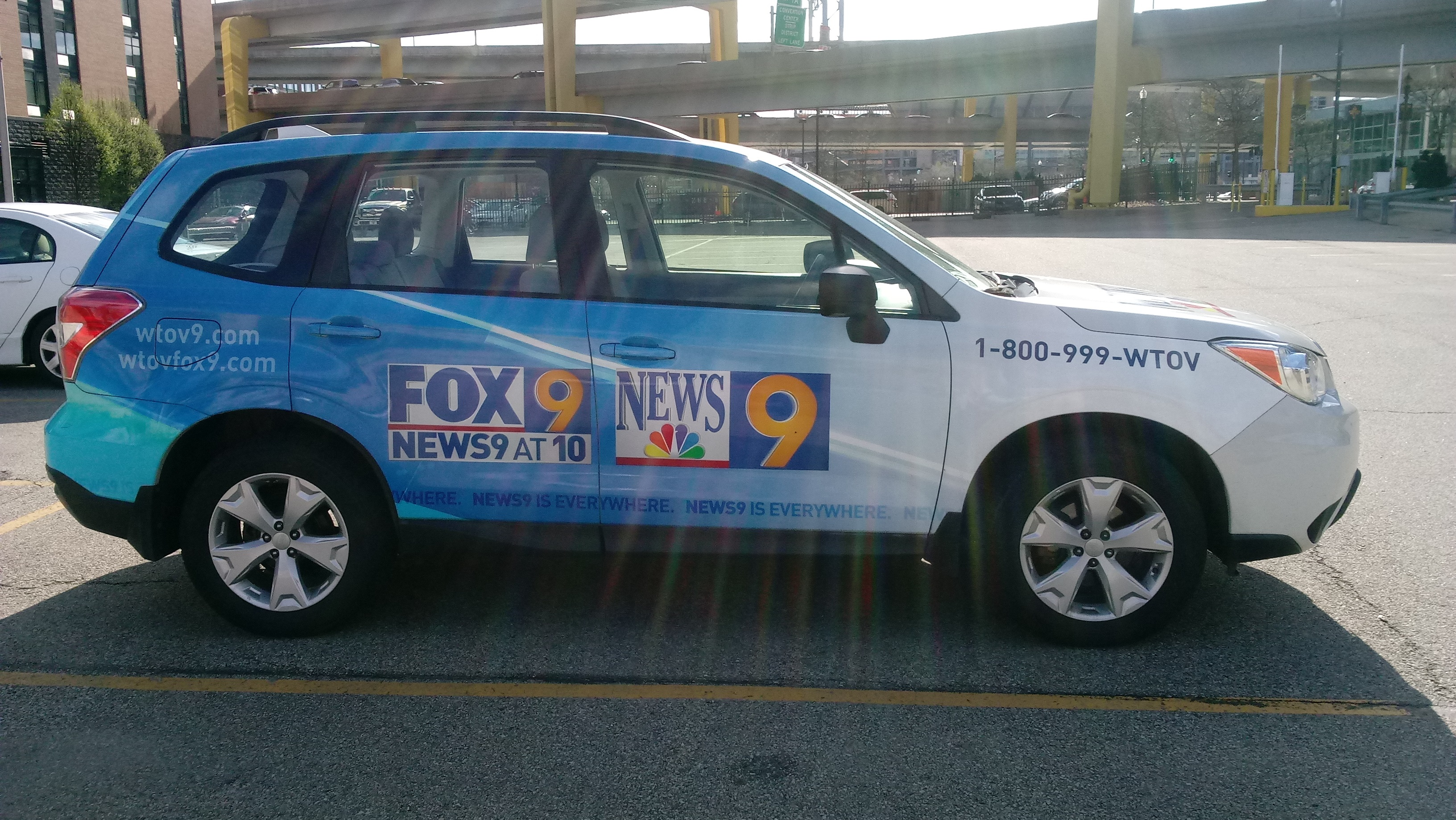 WTOV's News SUV in Pittsburgh on 4/29/18 covering the Pittsburgh Pirates. Picture Taken by User:Bbabybear02 of WTOV's News SUV in Pittsburgh on 4/29/18 covering the Pittsburgh Pirates.